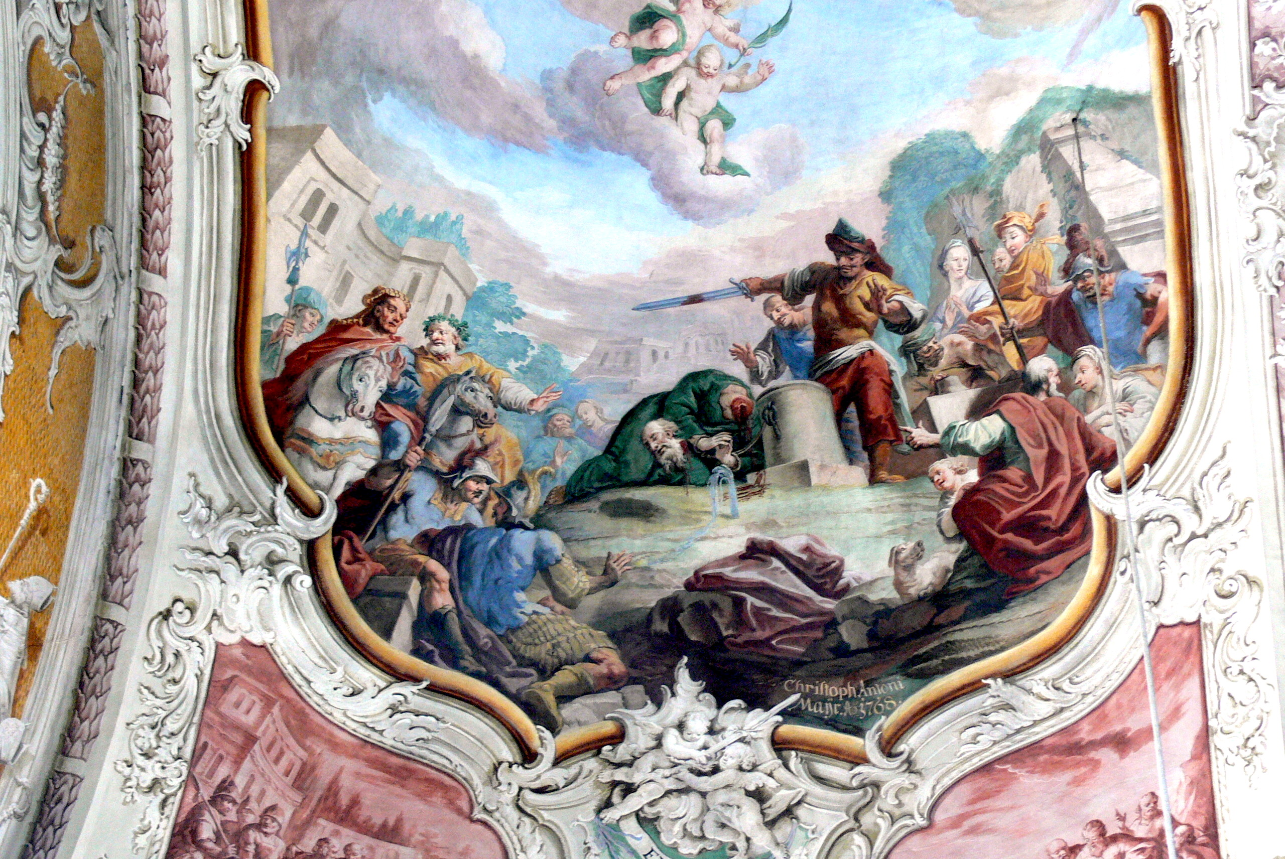 St.Peter and Paul parish church in Söll ( Tyrol ). Rococo frescos ( 1768 ) by Christoph Anton Mayr: Decapitation of Saint Paul.